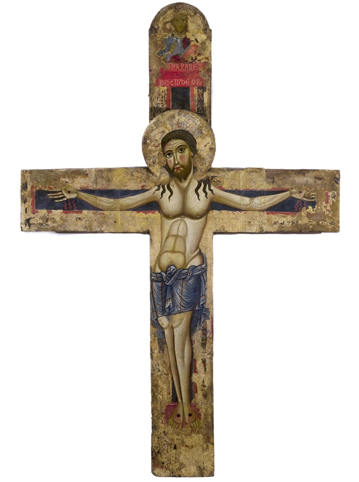 Margaritone d'Arezzo, Painted cross, Collezione Banca Monte dei Paschi, Siena